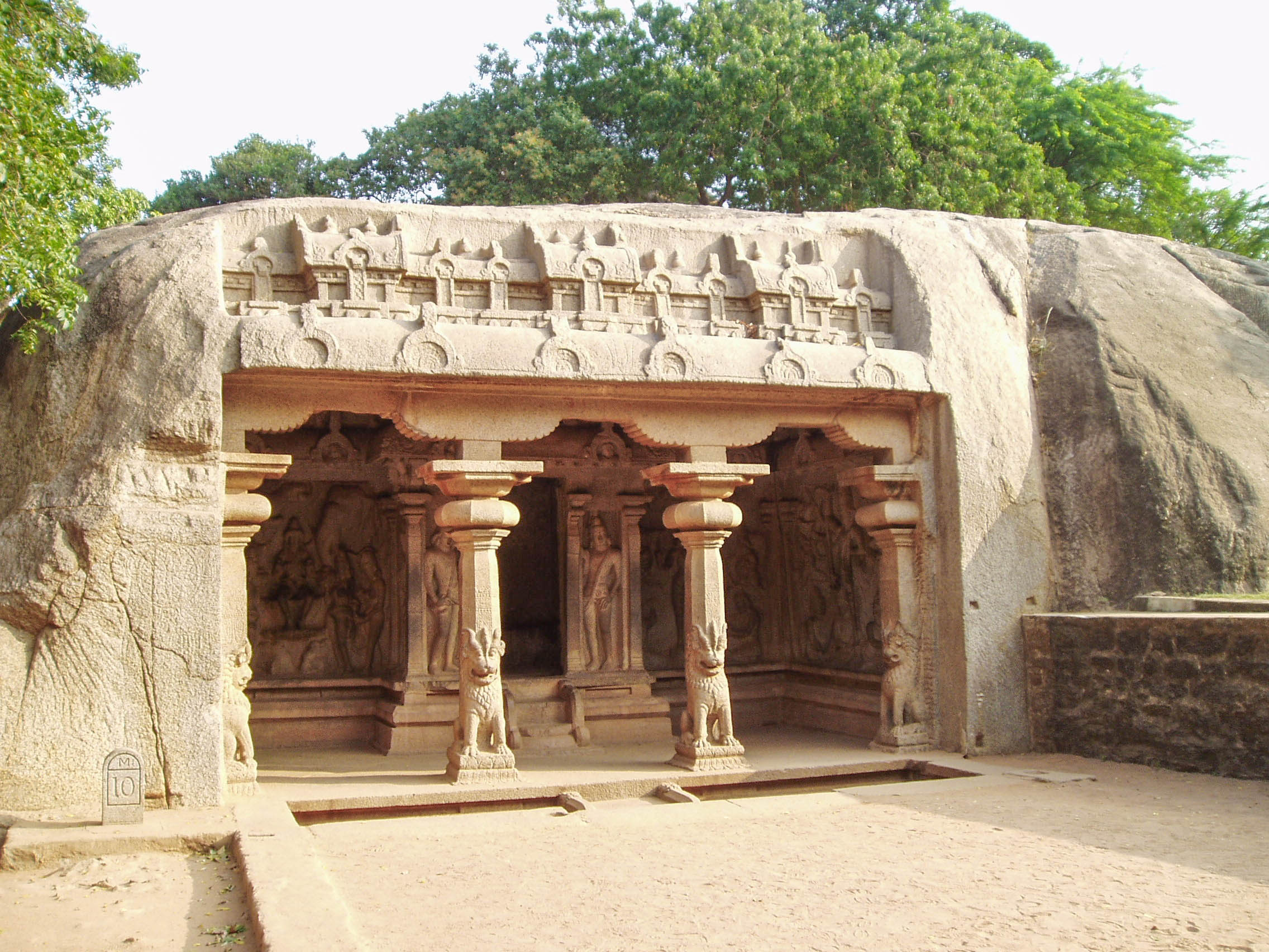 Self created. I hereby license the image under a free license to Wikipedia.